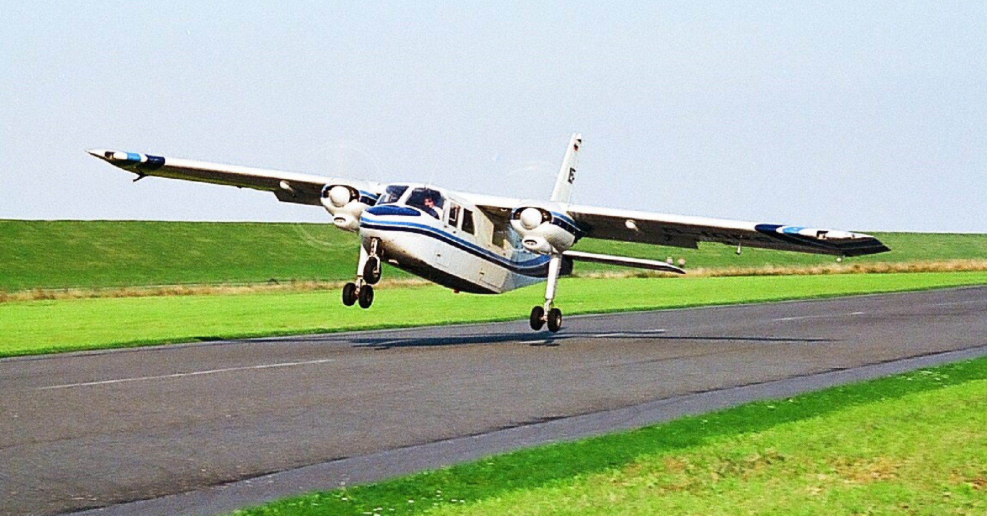 BN-2 Islander crosswind landing Harle airfield 1995, 30 kts crosswind Deutsch BN-2 Islander bei Landung in Harle mit 30 Knoten Seitenwind, 1995